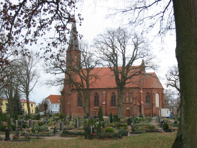 Church of Banzkow (Mecklenburg-Western Pomerania)